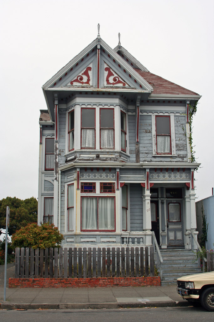 Not all the classy old houses in Eureka, California are in good shape. Here's one that needs some work. The building is located at 717 3rd Street in the Old Town historic district.